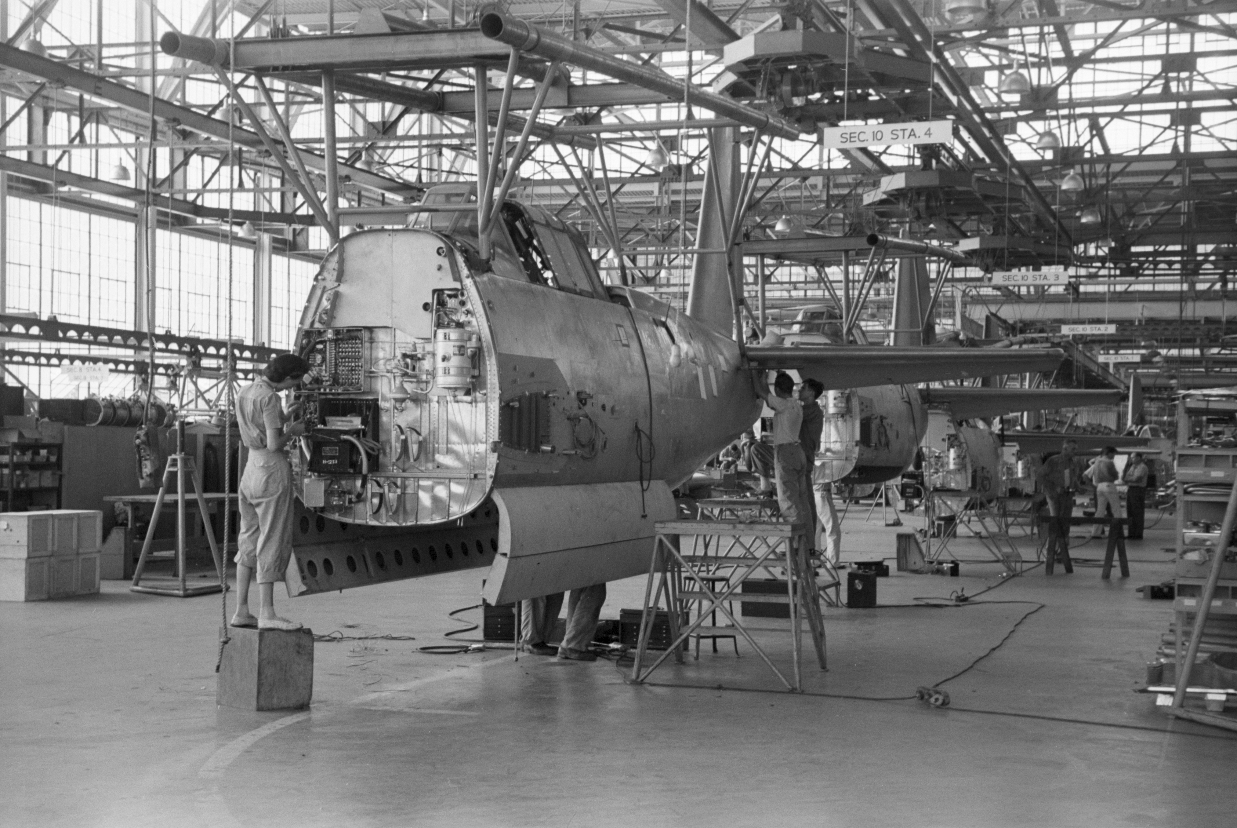 Nashville, Tennessee. Vultee Aircraft Company. In the fuselage assembly section